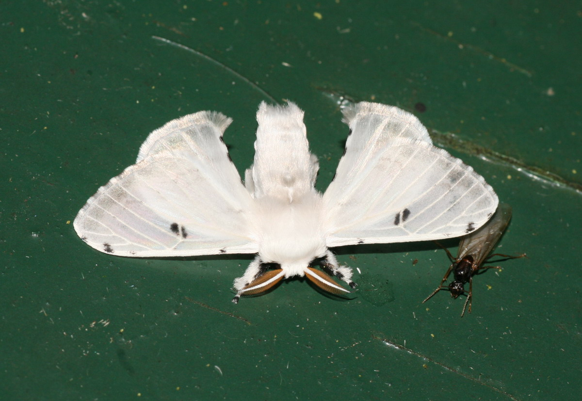 Malaysia, Fraser's Hill. March 2009